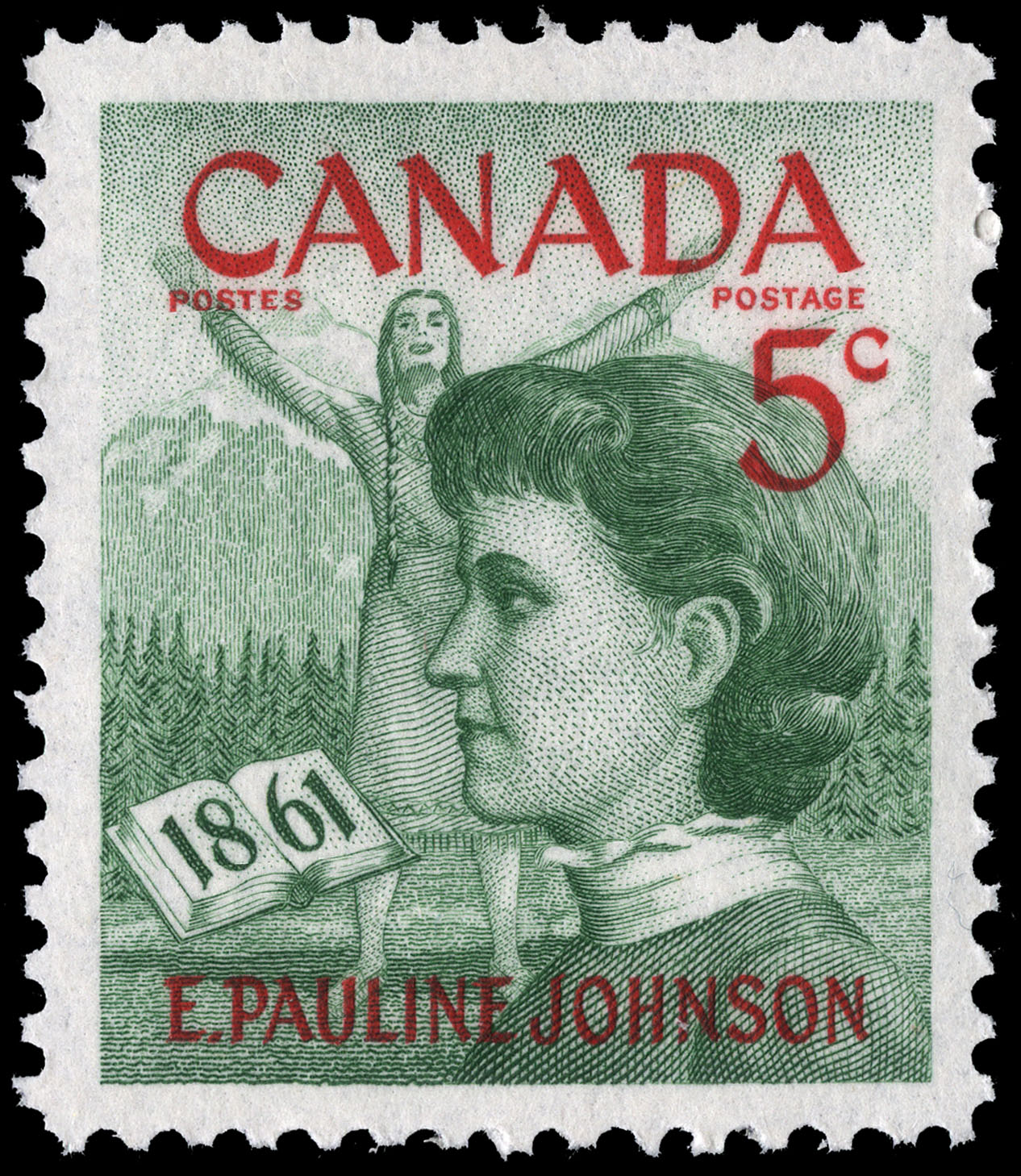 Stamp of Canada 5c, commemorative stamp to the "100st birthday of E. Pauline Johnson"